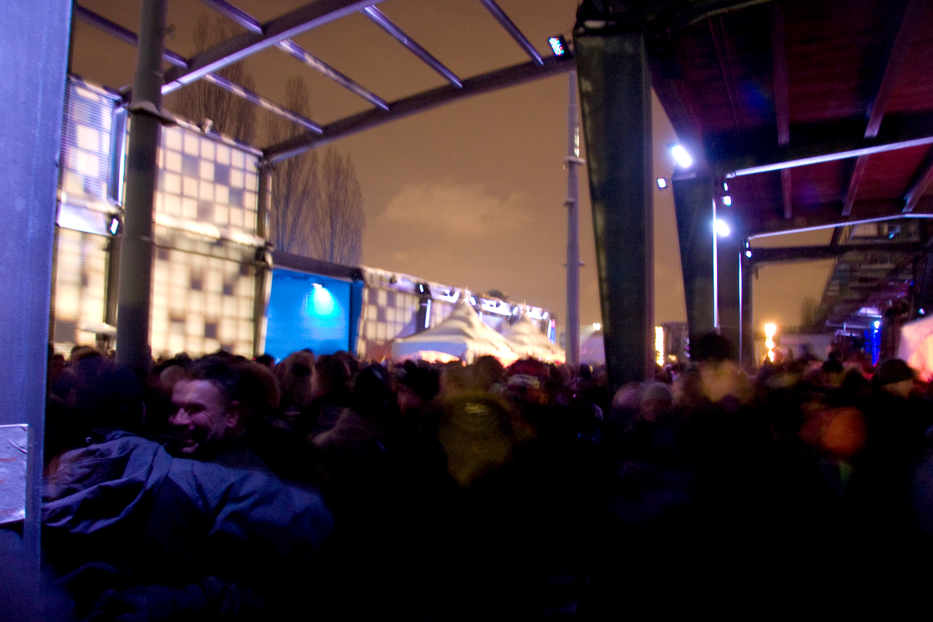 Third year of Igloofest in January 2009 in Montreal, Canada.